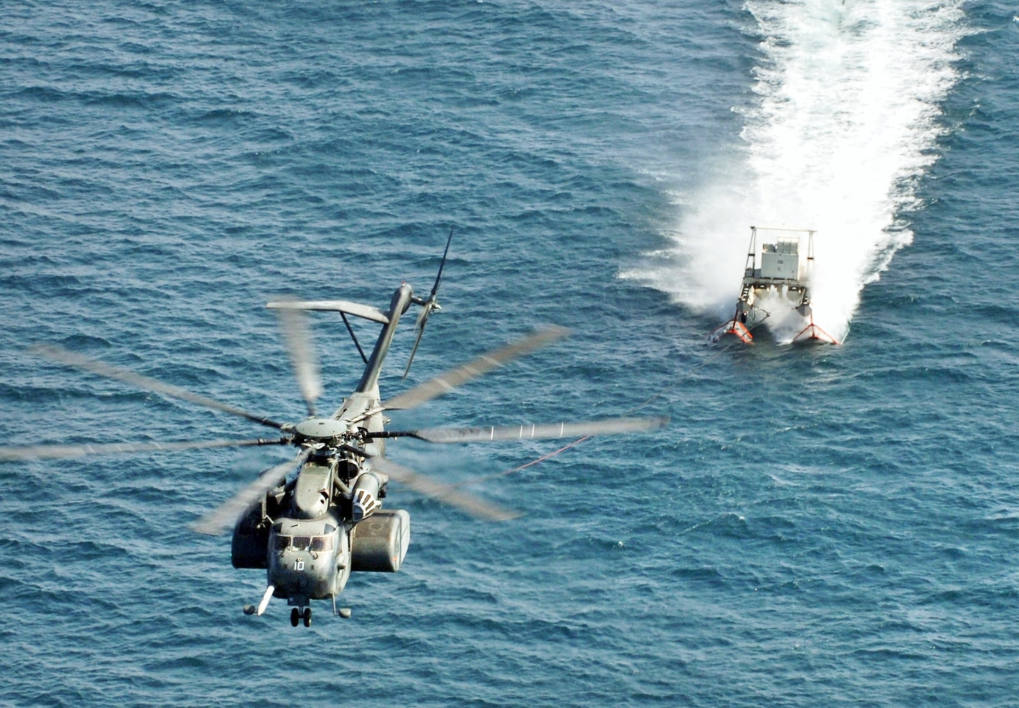 PERSIAN GULF (Nov. 12, 2007) - An MH-53E Sea Dragon, from Helicopter Mine Countermeasure Squadron (HM) 15, performs mine countermeasure training using the MK-105 sled. HM-15 is deployed aboard the multipurpose amphibious assault ship USS Wasp (LHD 1). Wasp is conducting mine countermeasure exercises to demonstrate the U.S. Navy's ability to defend against mine-laying operations and ensure open access to sea lanes. U.S. Navy photo by Lt. Cmdr. John L. Kline (RELEASED)